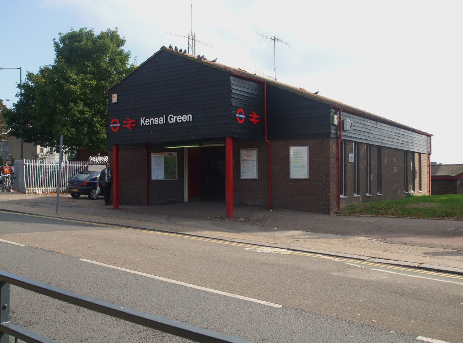 Kensal Green station building, served by both London Underground and Overground